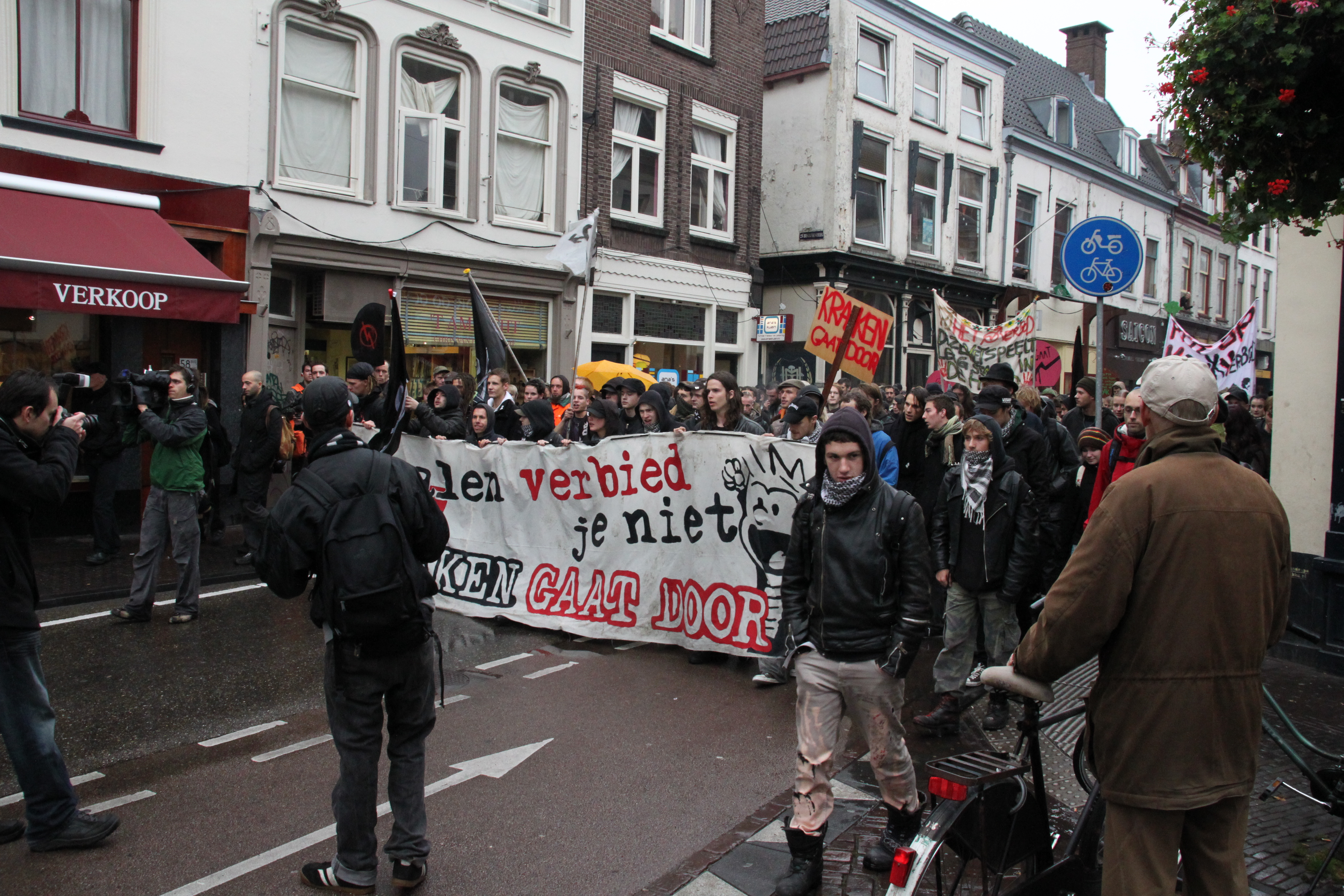 Squatting protest in Utrecht